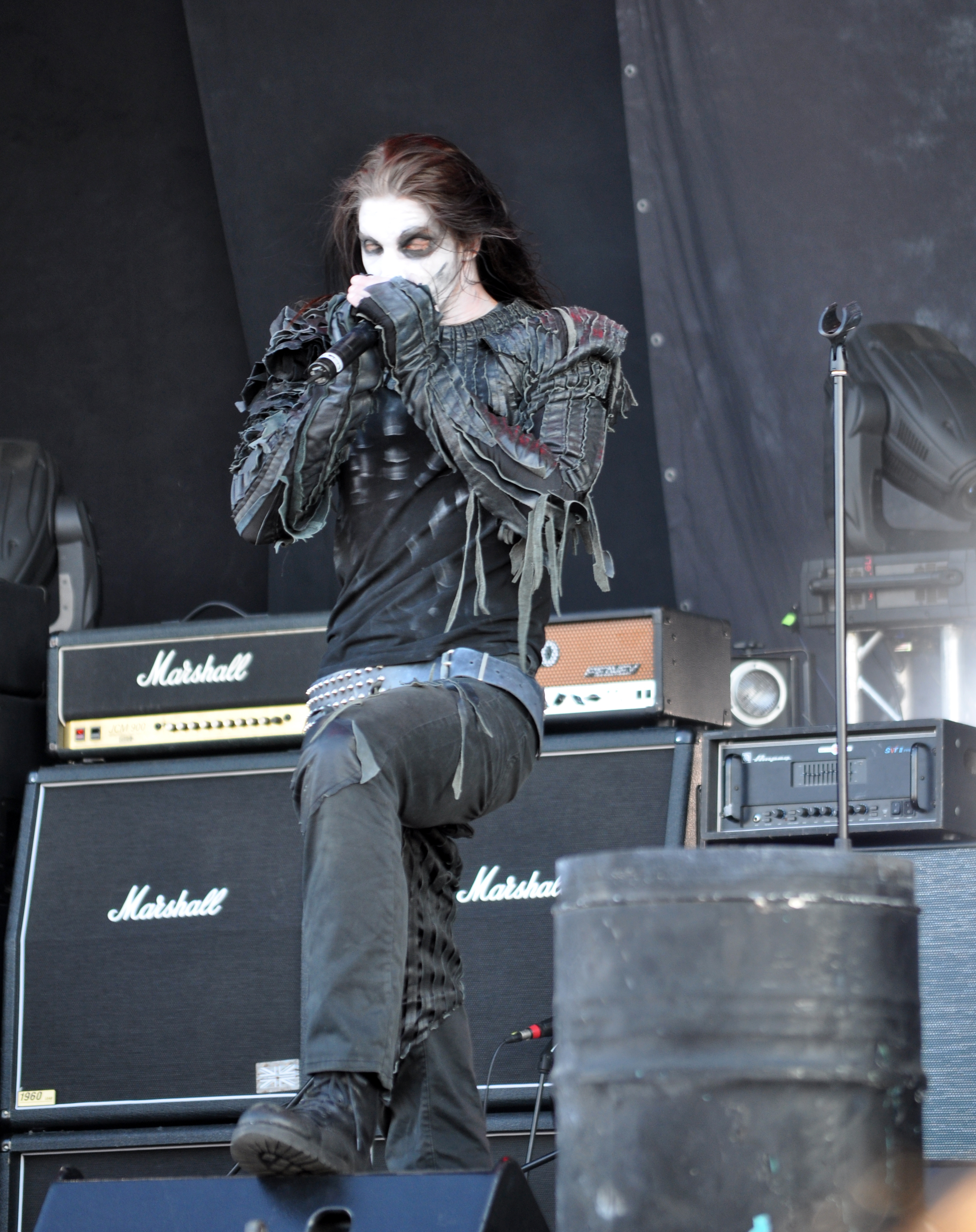 Dark Fortress at Party.San Open Air 2012